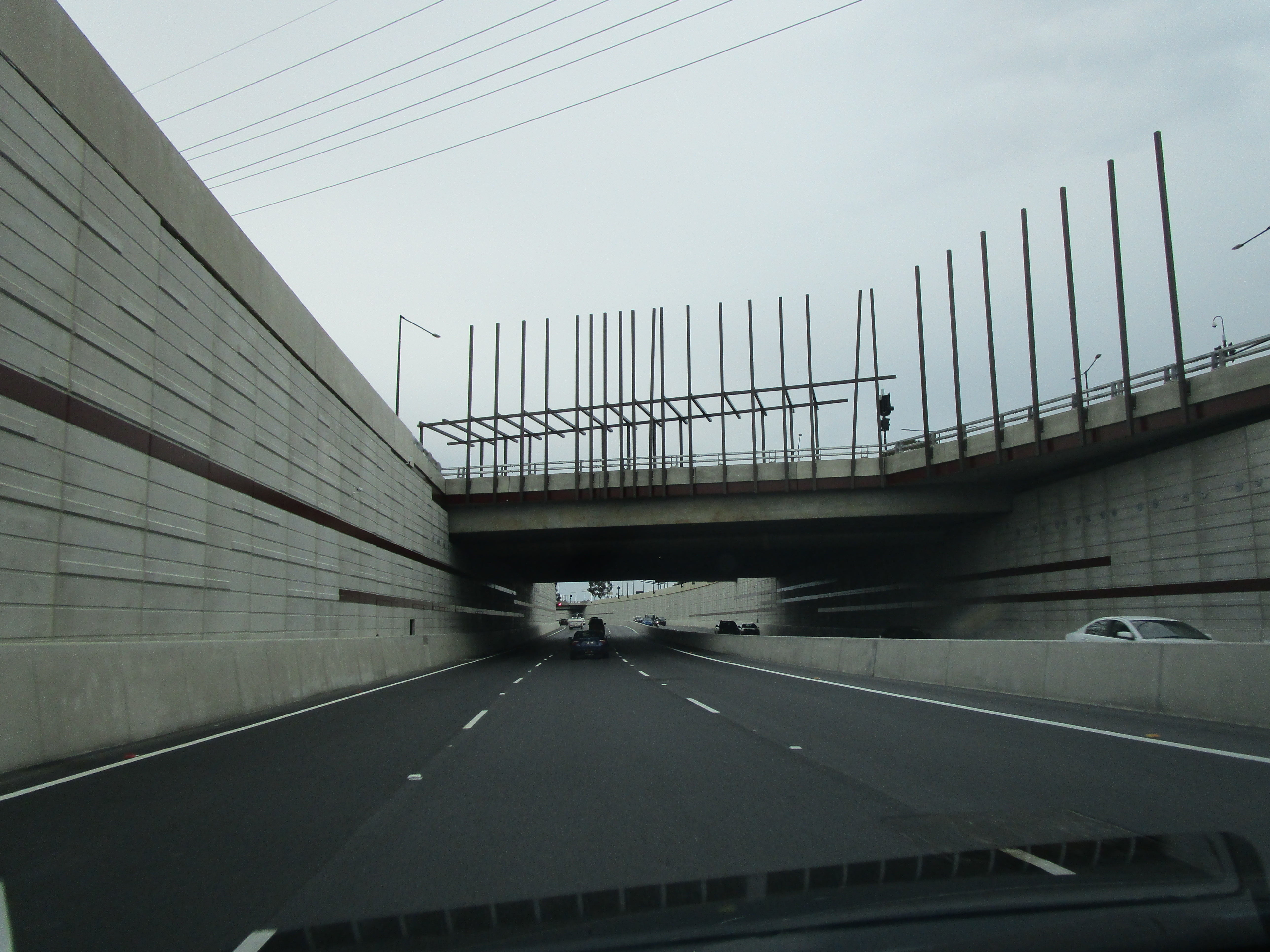 In the lowered motorway of the North-South Motorway in Adelaide, two days after the Torrens to Torrens section opened to traffic. This photo is southbound, showing the Port Road bridge